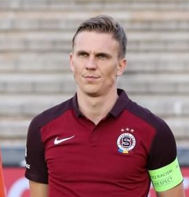 Bořek Dočkal